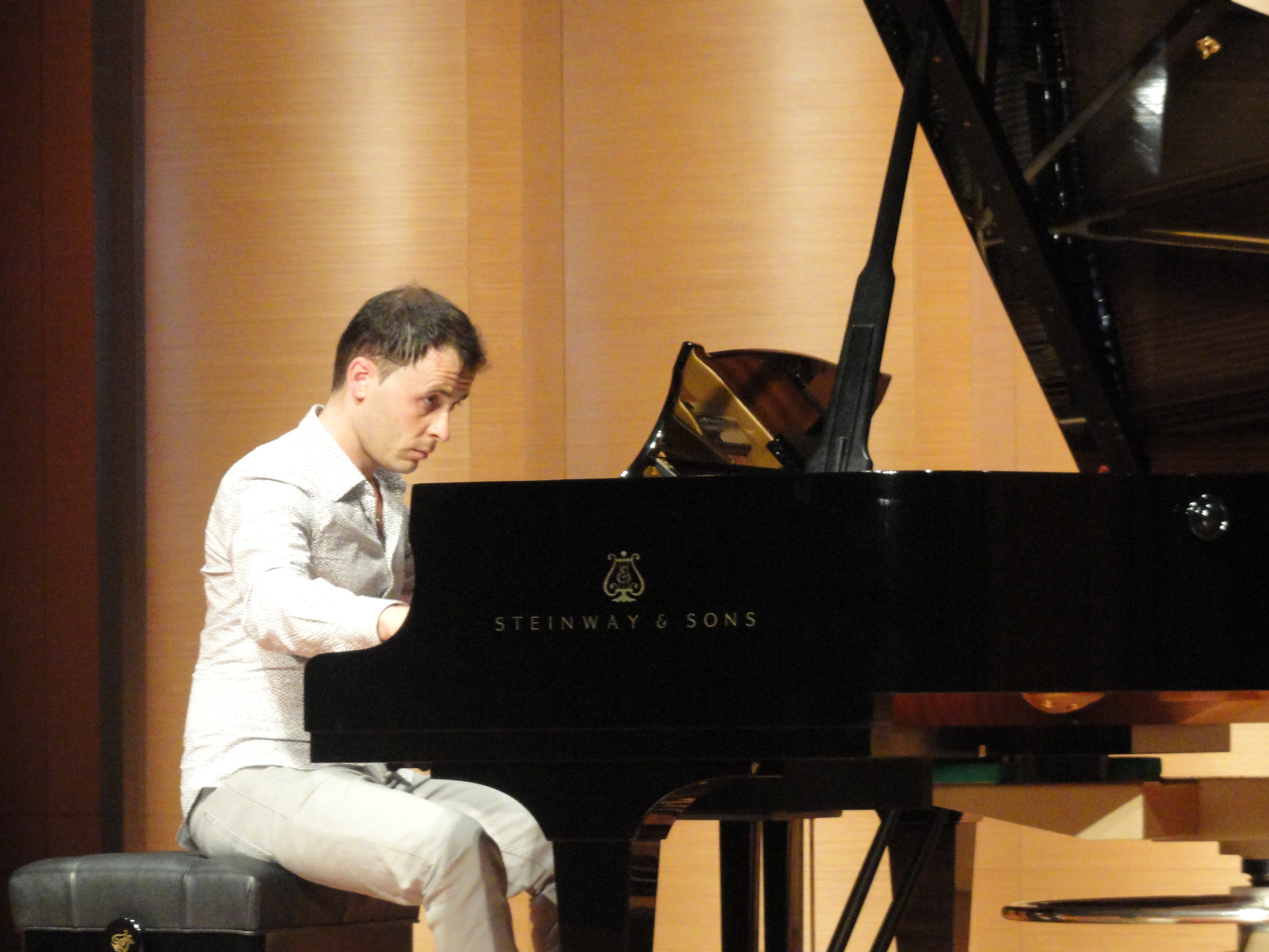 Giorgi Latsabidze performing in Taipei KHS Hall (Taiwan)